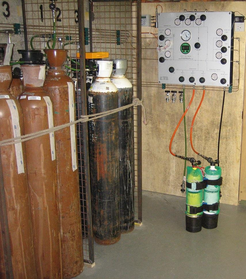 A gas blending system consisting of a blending panel with gas inputs from 3 bank cylinders, located and blown by an electric powered compressor in the room behind, 3 inputs, for cascading, of oxygen J cylinders (black) and 3 inputs of helium J cylinders (brown). Cropped by User:RexxS